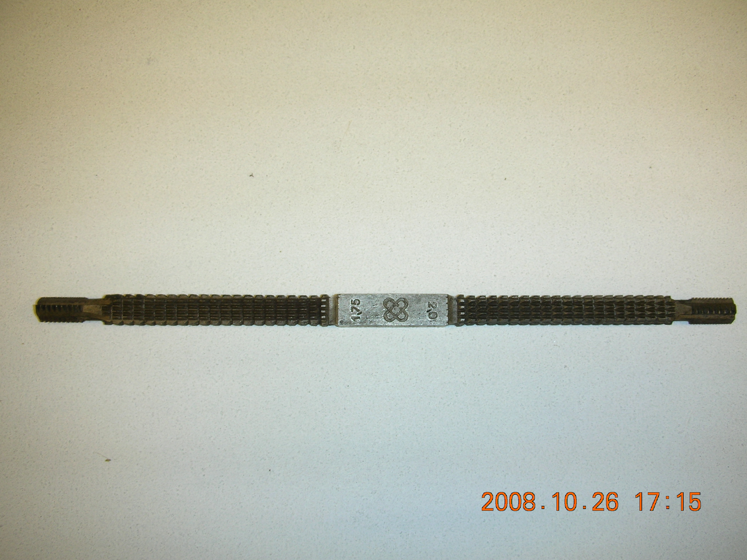 Thread file, to fix damaged threads